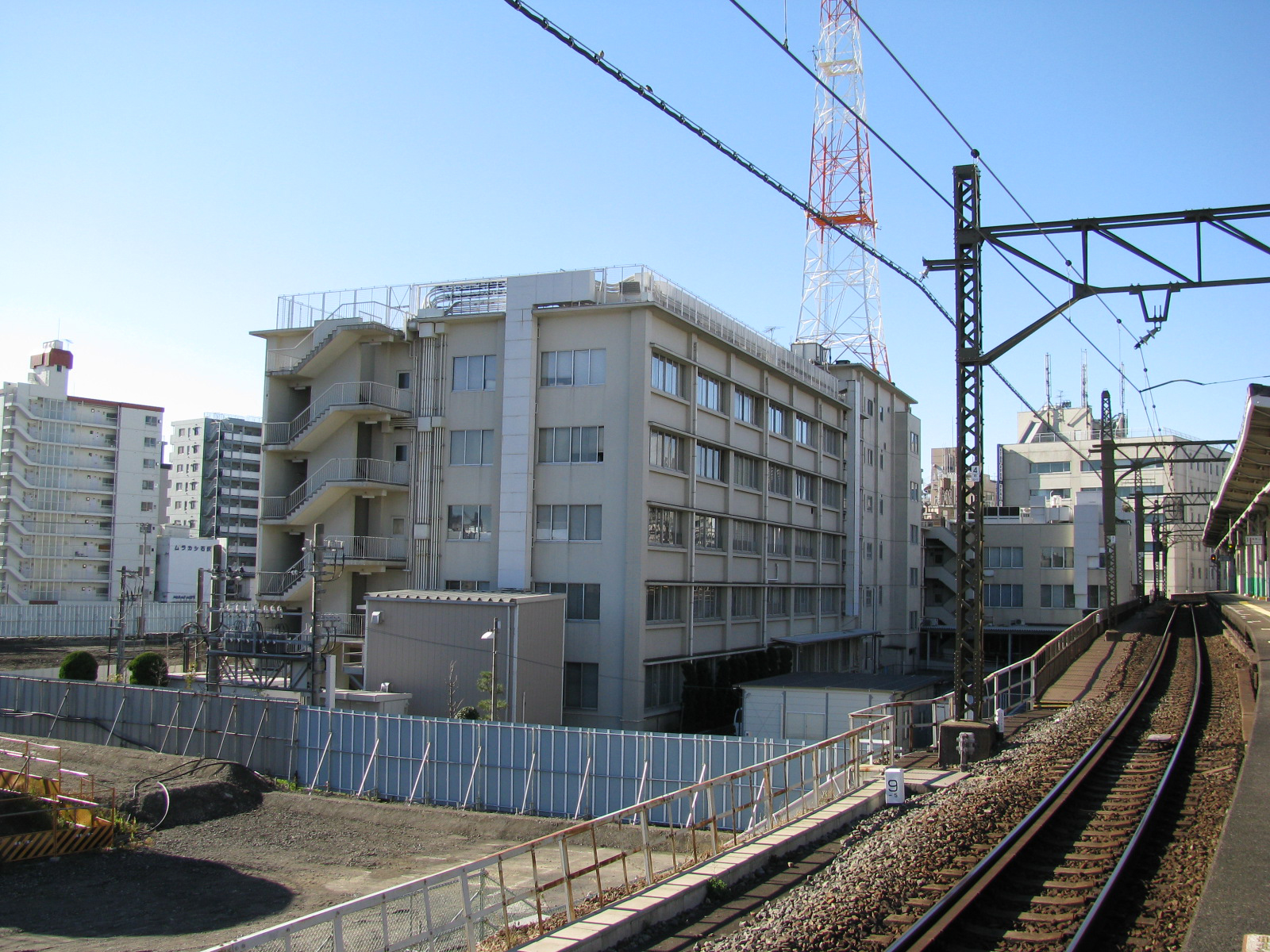 Tobu Railway Company Main Office look from Narihirabashi station. Canon PowerShot SX100 IS